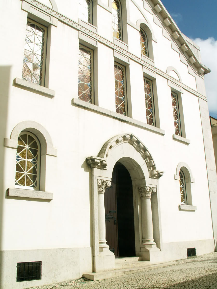 Synagogue Shaarei Tikva ("Gates of Hope"), in Lisbon.